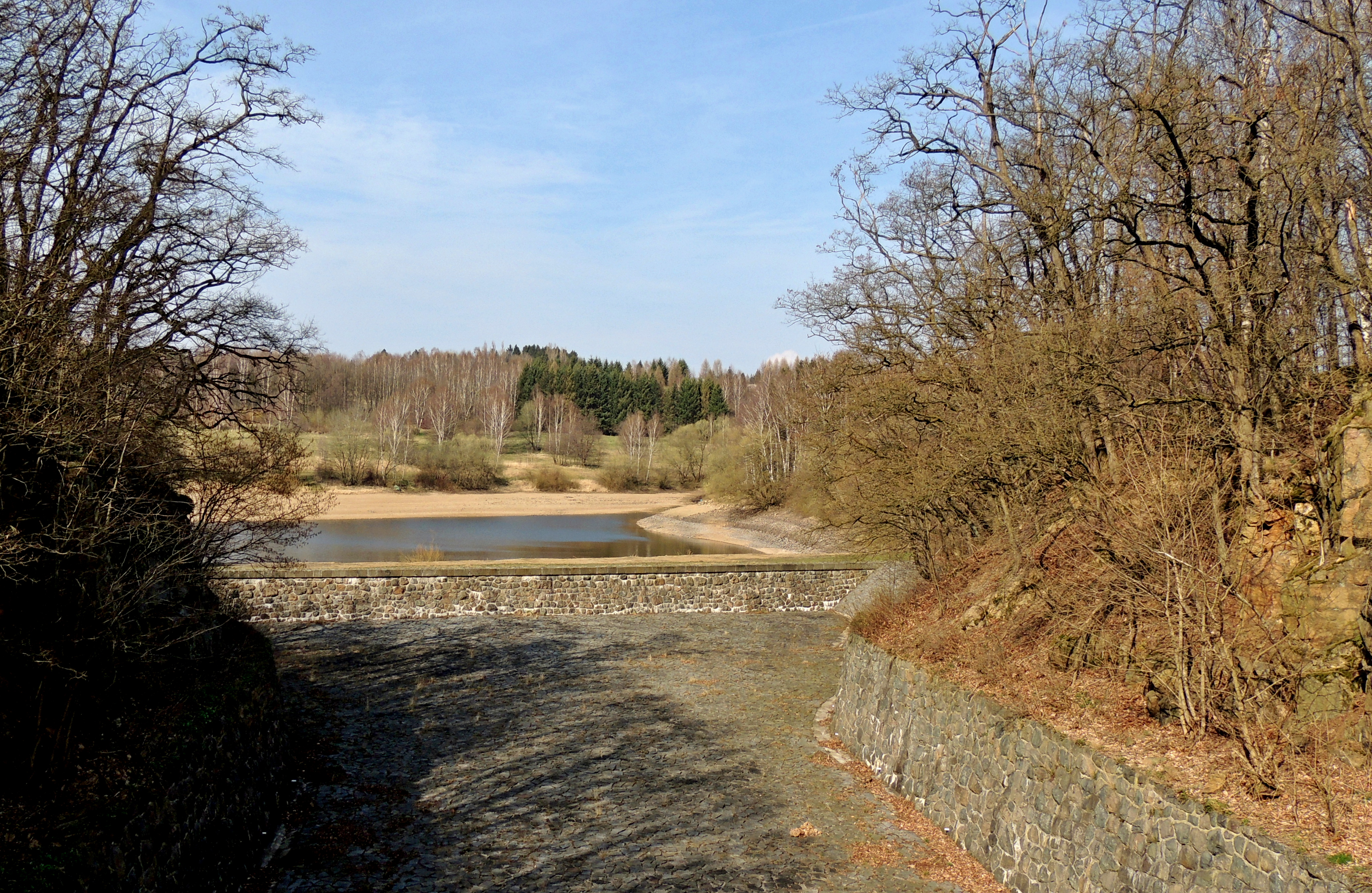 Water reservoir Seč. In the case of large water, the water does not flow over the structure of the dam, but it overflows into the stone channel of the cascade and then into the original river. Photo location: Czech Republic, Pardubice Region, town Seč, Seč Dam, "Kameničská" highlands.